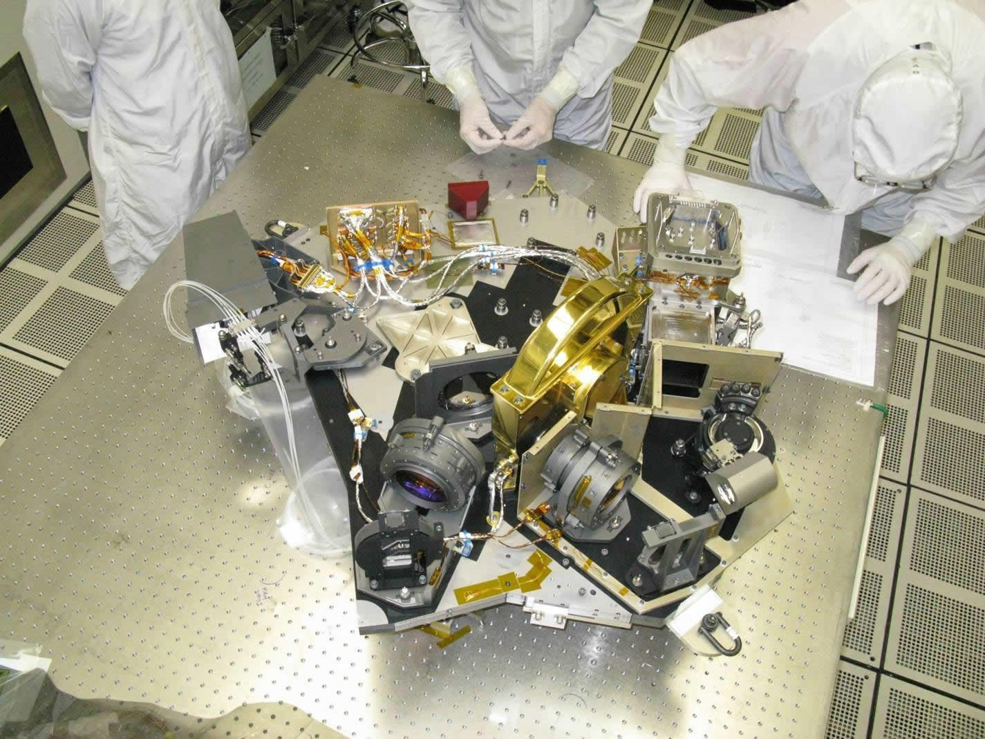 NIRCam Engineering Test Unit The NIRCam Engineering Test Unit has passed its testing at Lockheed and is being readied for shipment to Goddard.